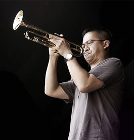 Chuong Vu